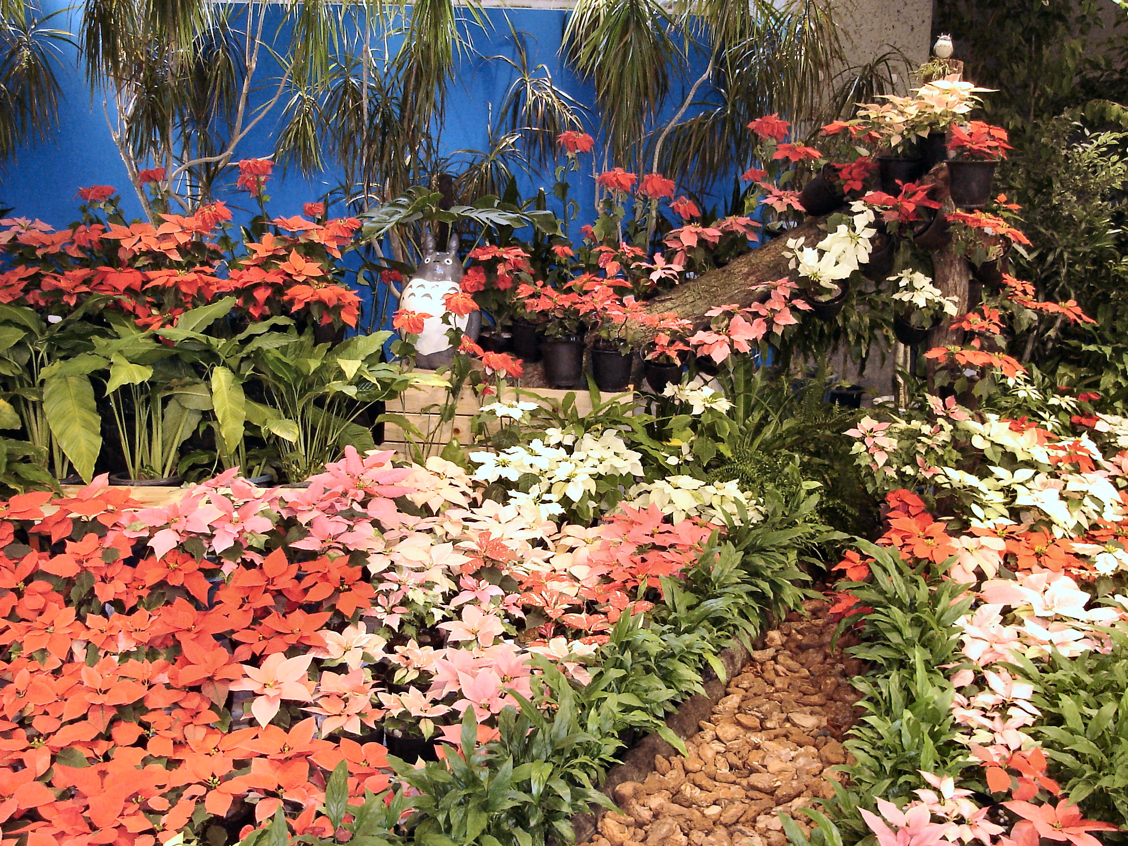 Poinsettia in kyoto botanical garden